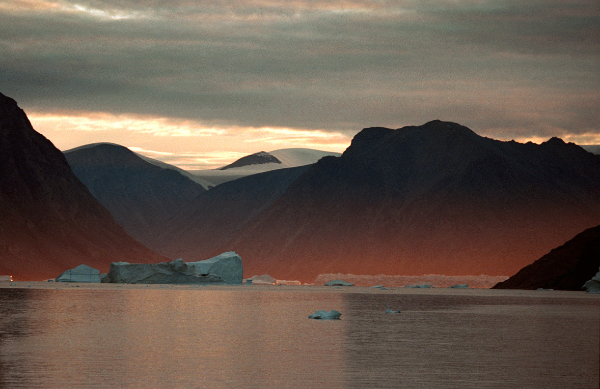 Sunshine